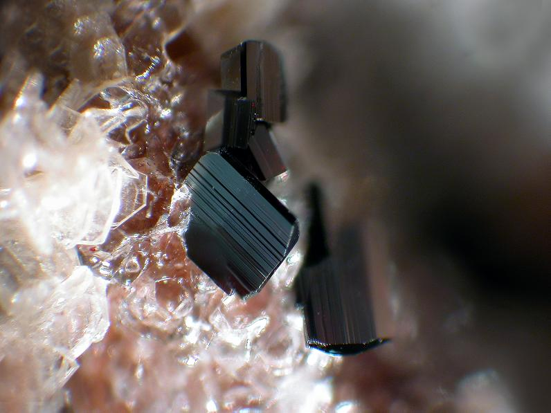 Pseudobrookite crystal group, image width: 2 mm - Locality: Wannenköpfe, Ochtendung, Eifel region, Germany